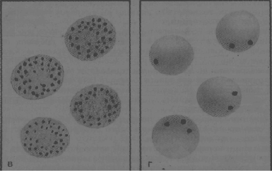 Қорғасынмен улану кезіндегі эритроциттердің формасы, в – базофильді түйіршікті эритроциттер; г – эритроциттер Гейнц денешіктерімен.